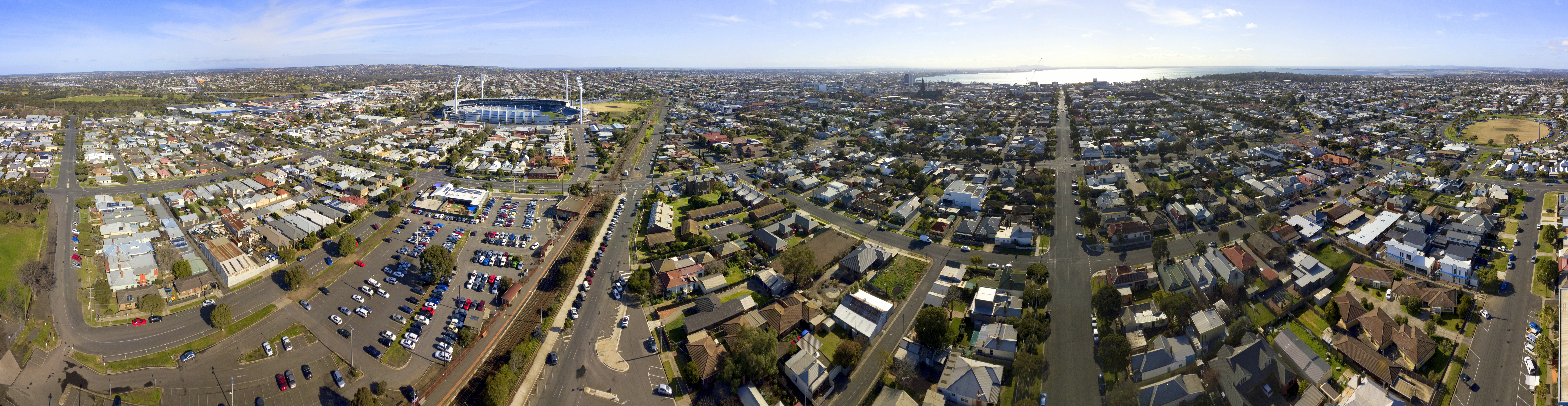 Aerial panorama of Geelong and its heartbeat: the home of the Geelong Cats